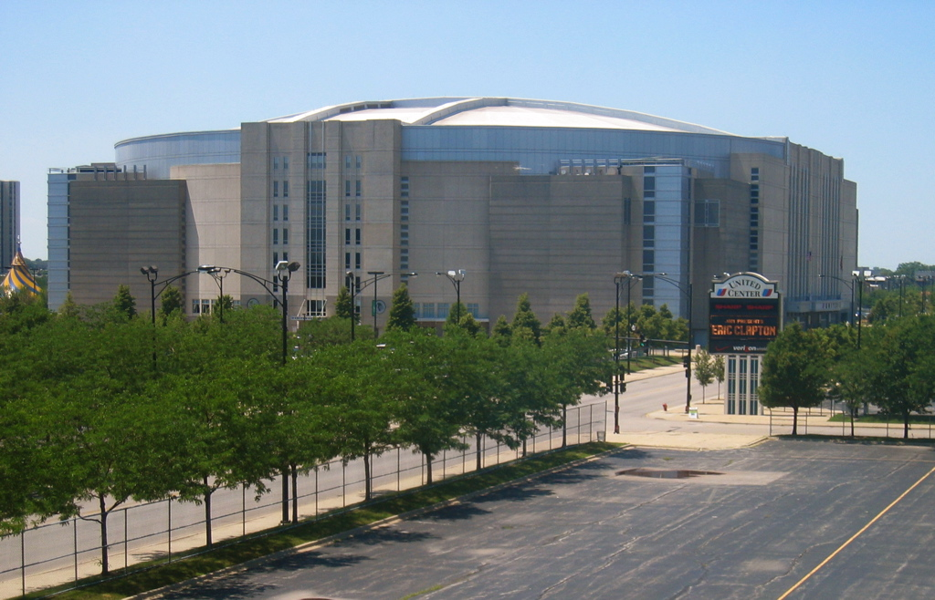 The United Center in Chicago, Illinois, home of the Chicago Bulls NBA team and Chicago Blackhawks NHL team. Photographed from 41°52′54″N 87°40′12″W / 41.8818°N 87.6701°W in a train on the Pink Line of the Chicago 'L'.